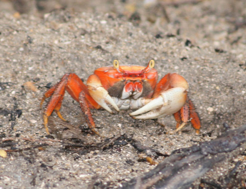 Cardisoma guanhumi (juvenile) near Laguna Kiani, Vieques, Puerto Rico